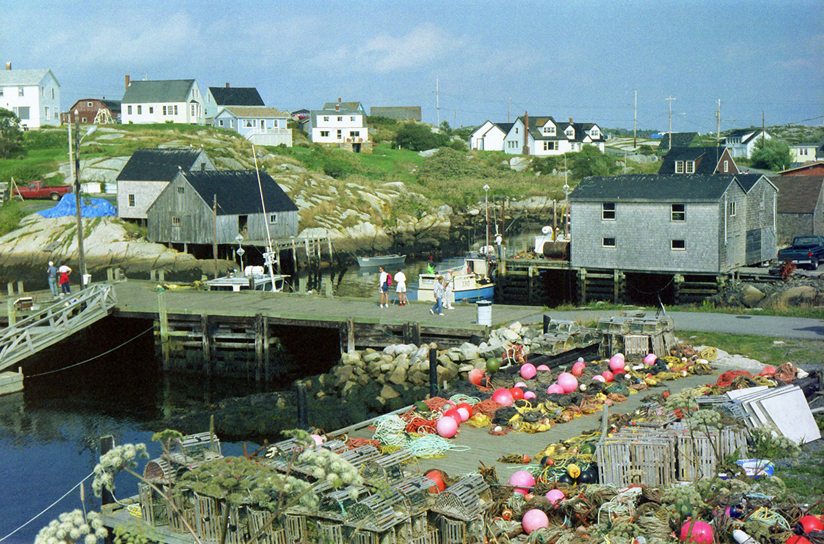 A pier with some ropes at Peggy's Cove, Canada